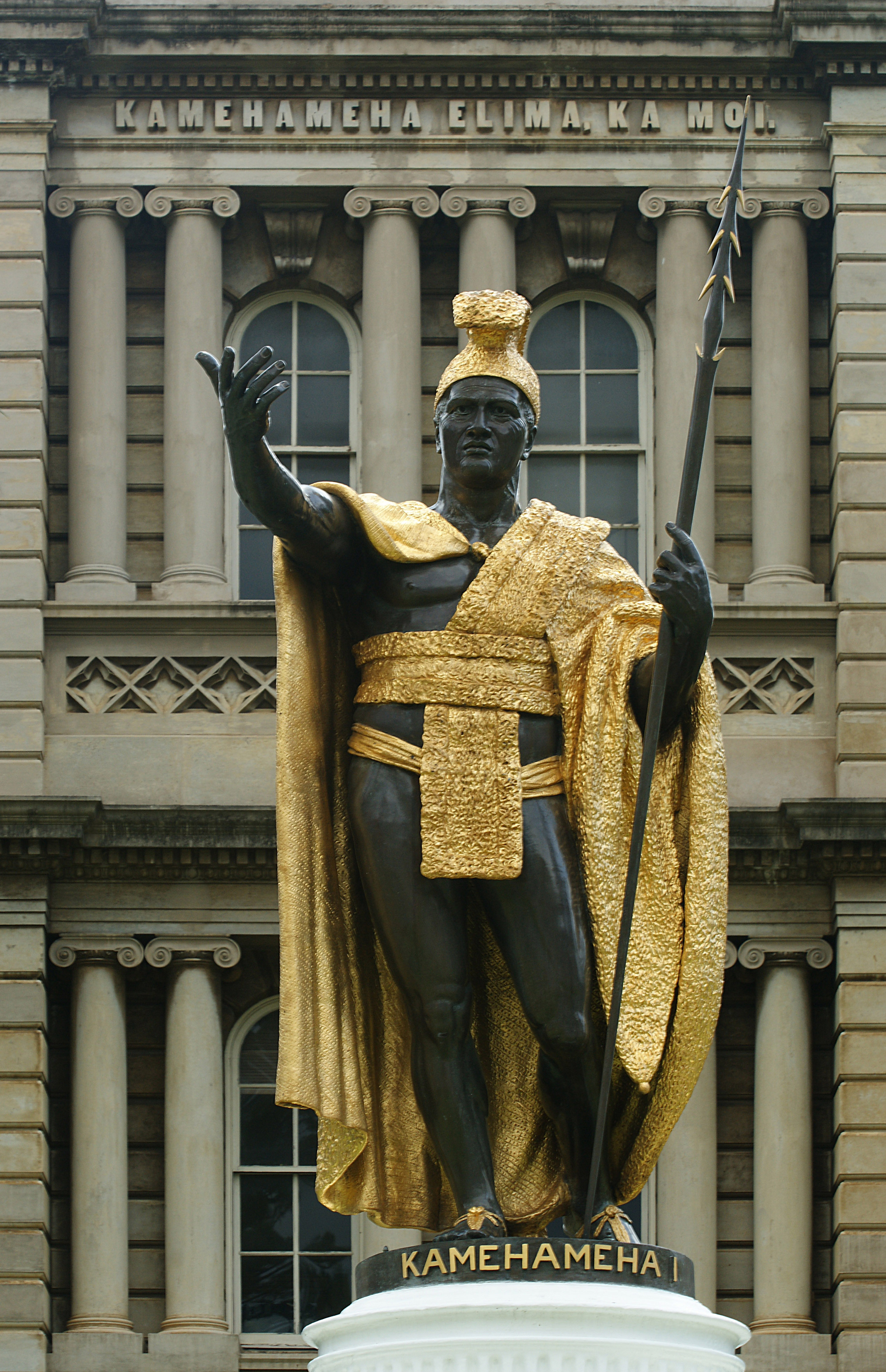 Statue of King Kamehameha I, standing in front of Ali'iolani Hale in Honolulu. Cast: 1881, bronze with gold leaf. This was the second casting due to the first going down in a shipwreck (later recovered and on display in Kapaʻua. Approx 8½ feet tall on a 10 foot concrete base. The pedestal has four bronze and gold leaf plaques with scenes from Kamehameha's life. Sculptor: Thomas Ridgeway Gould (1818–1881).